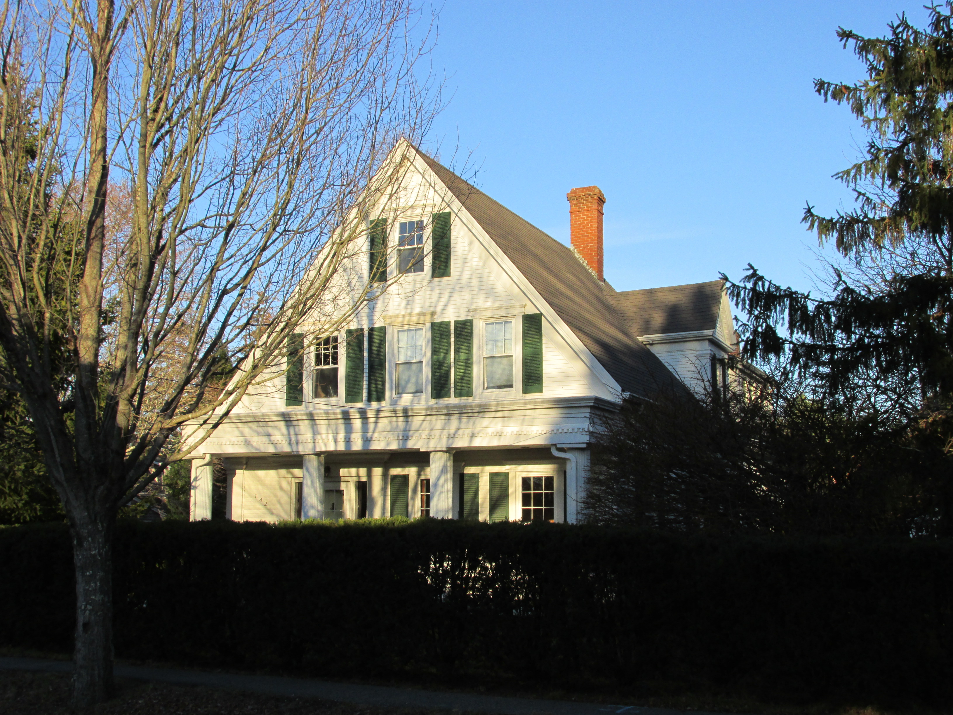 142 Old Stage Road, Centerville Massachusetts